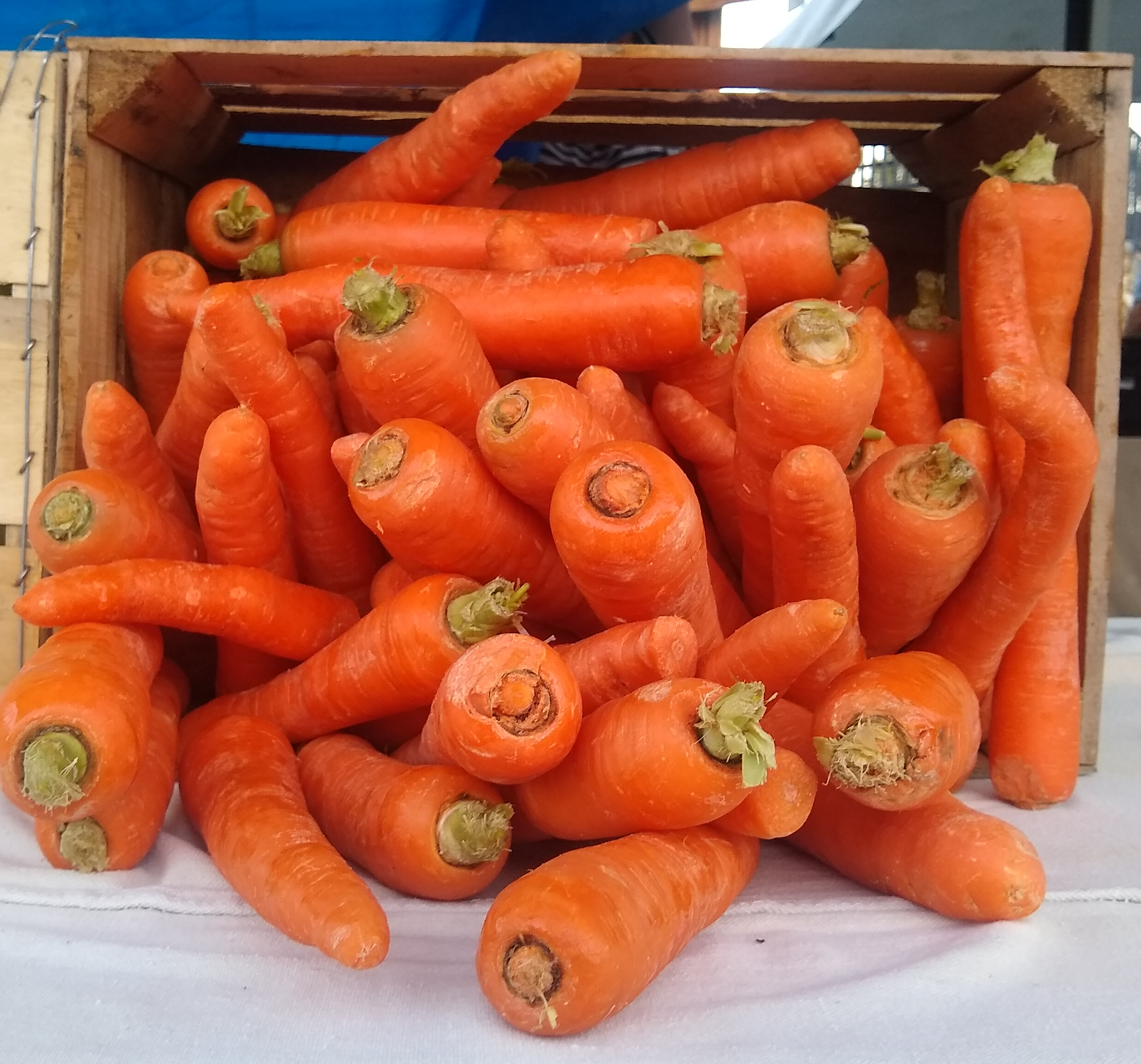 Carrots for sale at a farmers market in The Villages Florida.